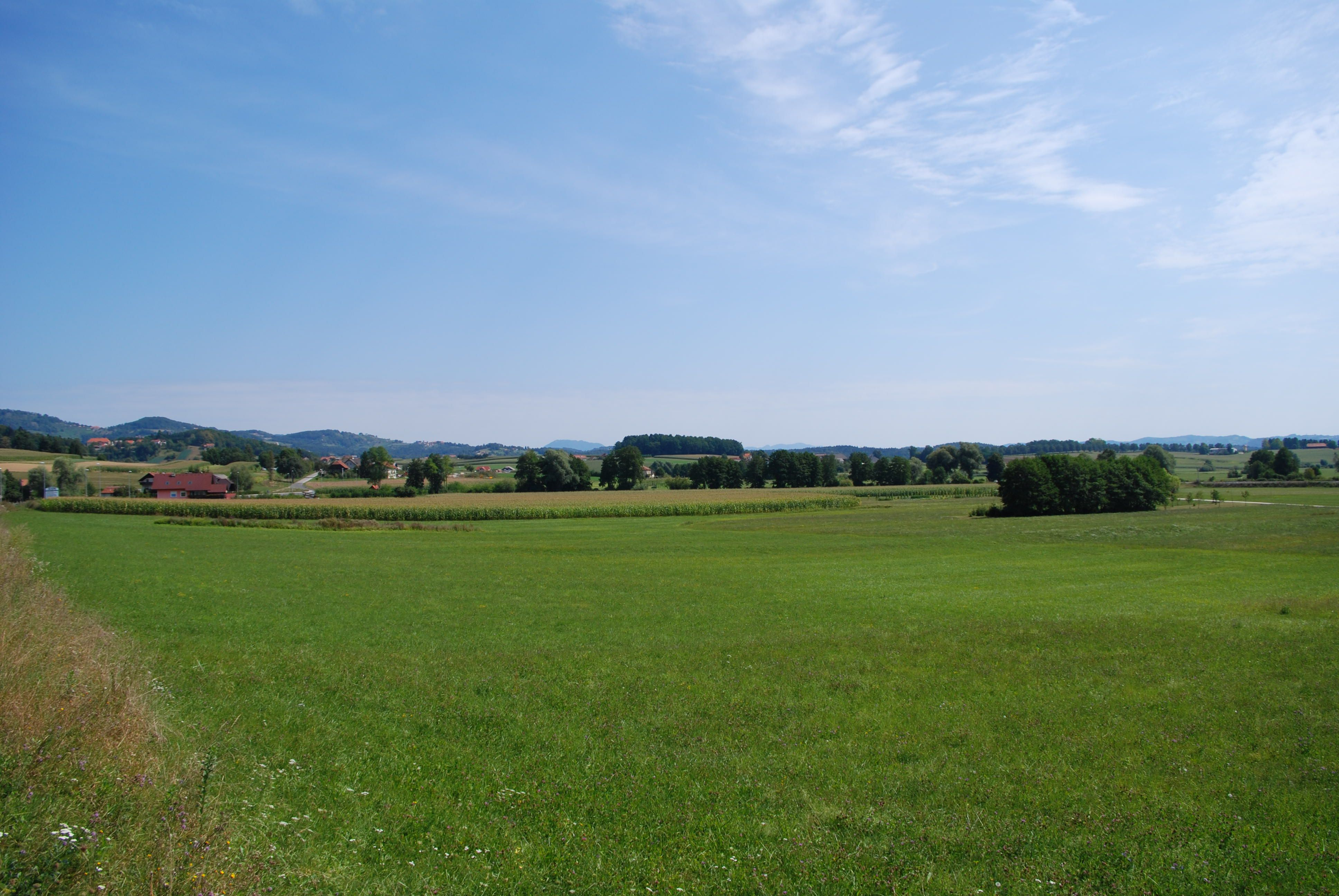 The Mirna Valley, Slovenia. From from the road at the end of Mirna in the direction towards Trstenik (left village), Slovenska vas (middle village), Dob Prison (towards the right side).